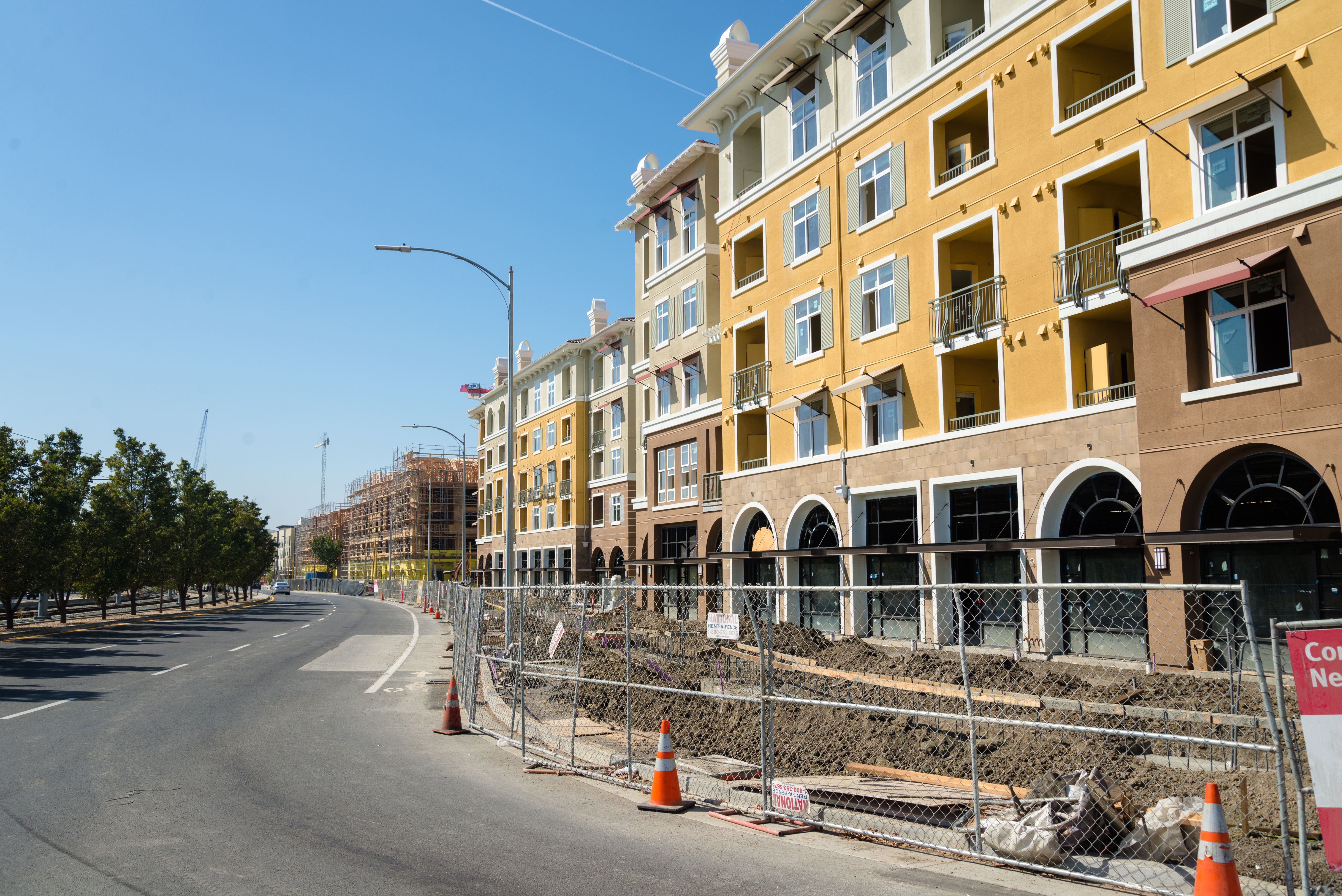 Photo by Sergio Ruiz